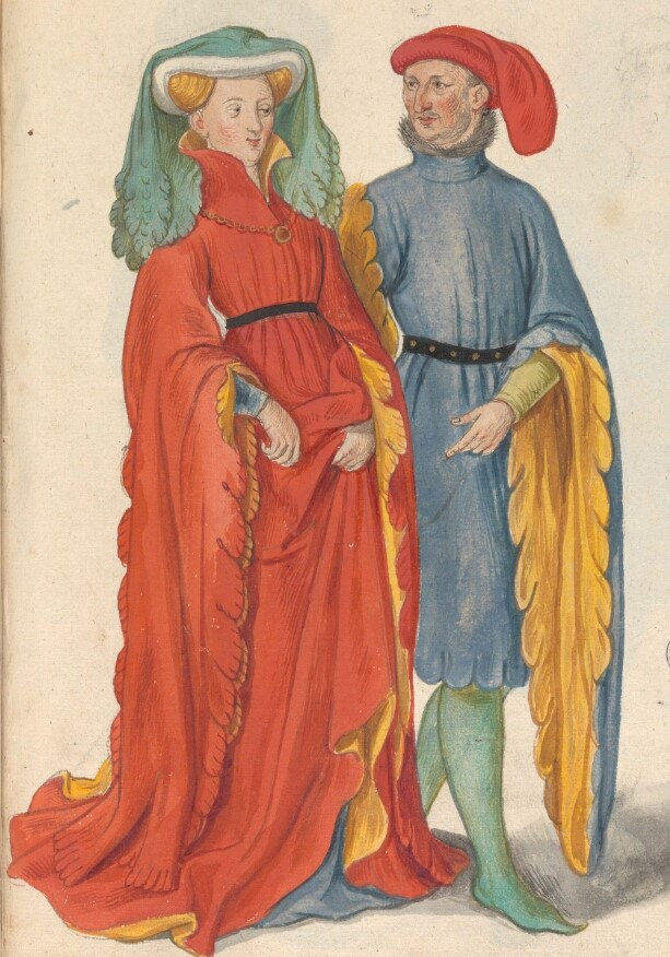 Excerpt from the manuscript "Théâtre de tous les peuples et nations de la terre avec leurs habits et ornemens divers, tant anciens que modernes, diligemment depeints au naturel". Painted by Lucas d'Heere in the 2nd half of the 16th century.